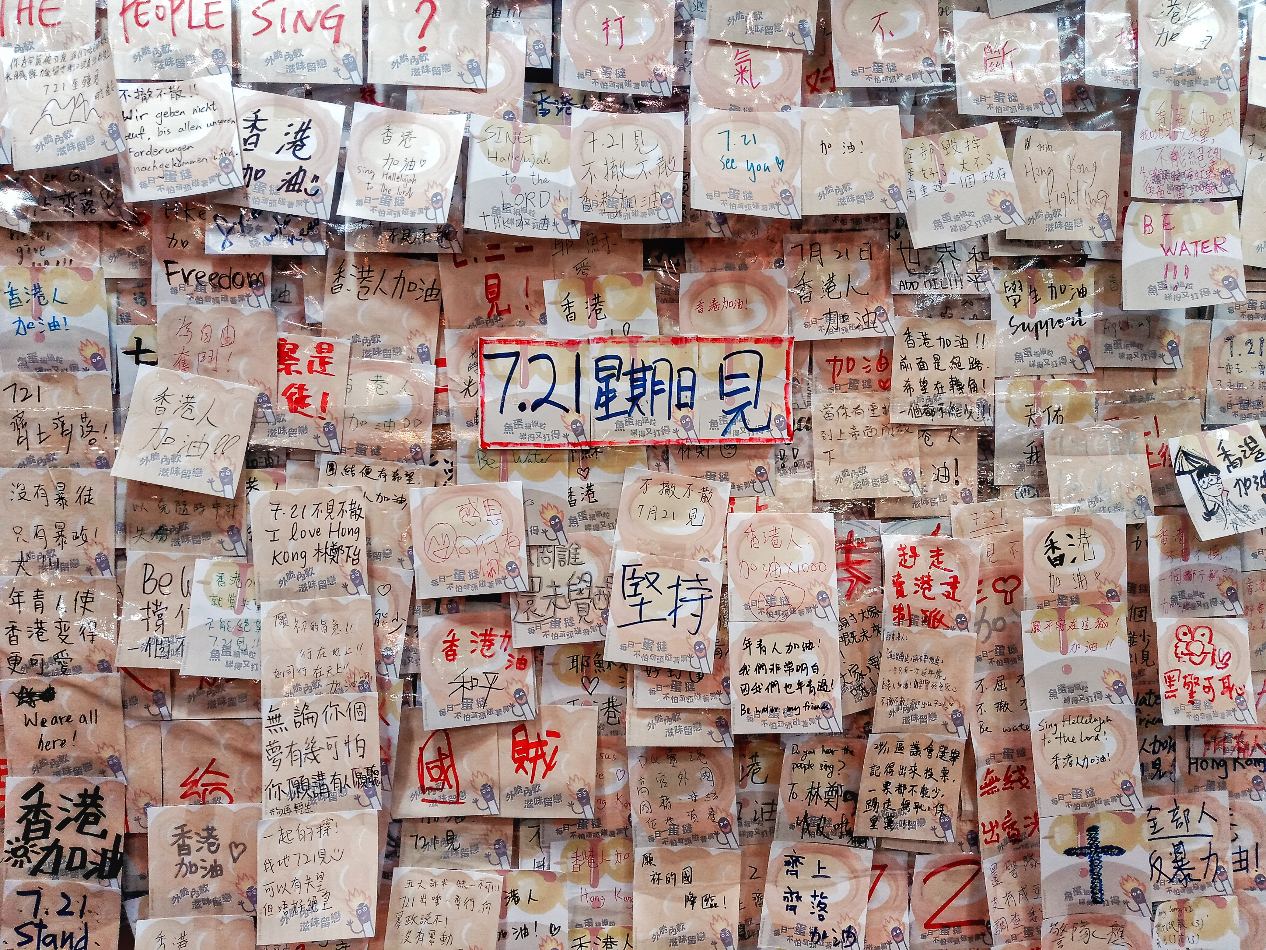 A part of Lennon Wall in Hong Kong book fair 中文（香港）: 香港書展內部分的連儂牆